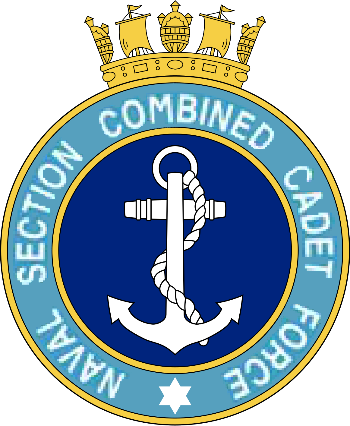 Combined Cadet Force Naval Section Badge